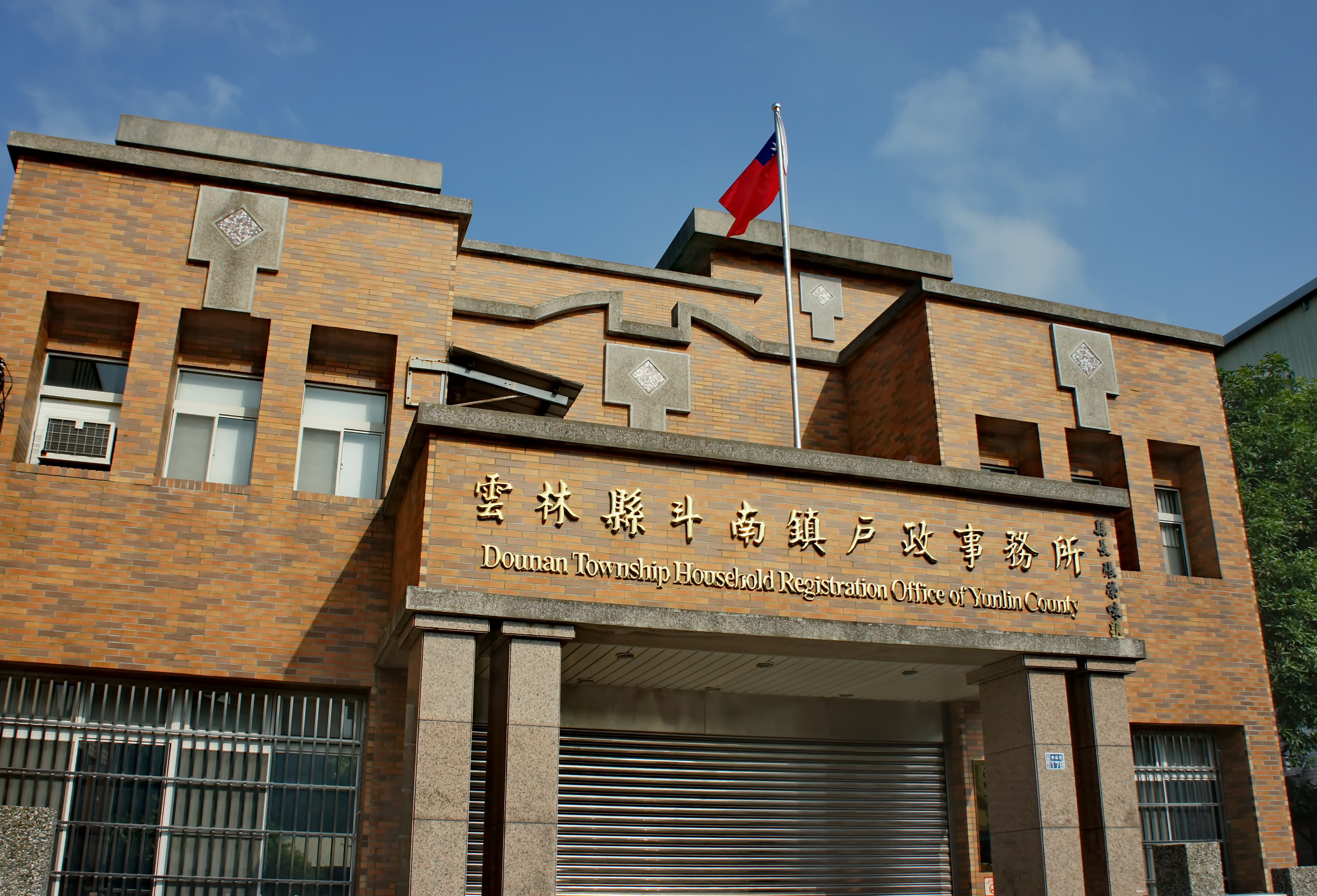 Dounan Township Household Registration Office, Yunlin County.